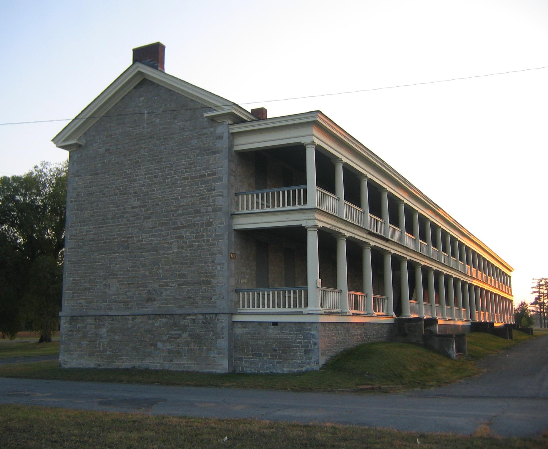 Sunset view looking west at the 1838 "Old Stone Barracks" at Plattsburgh, New York.